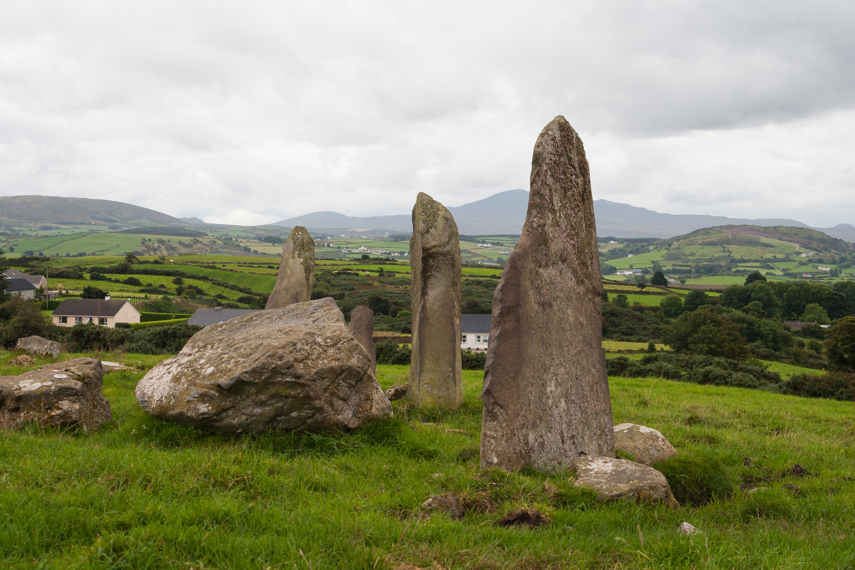 Bocan stone circle, looking south-west.